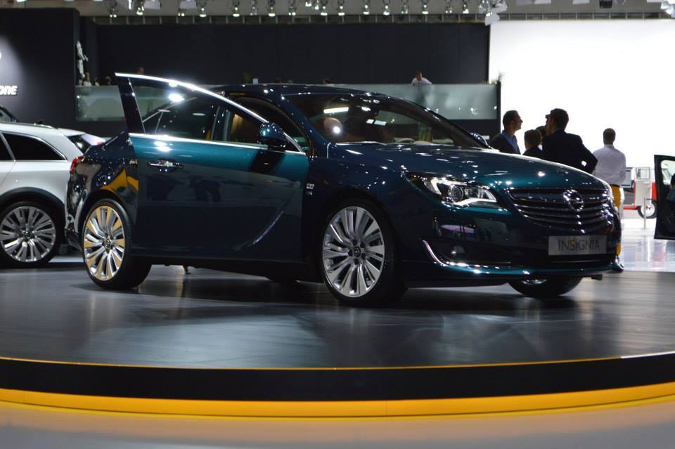 Opel Insignia